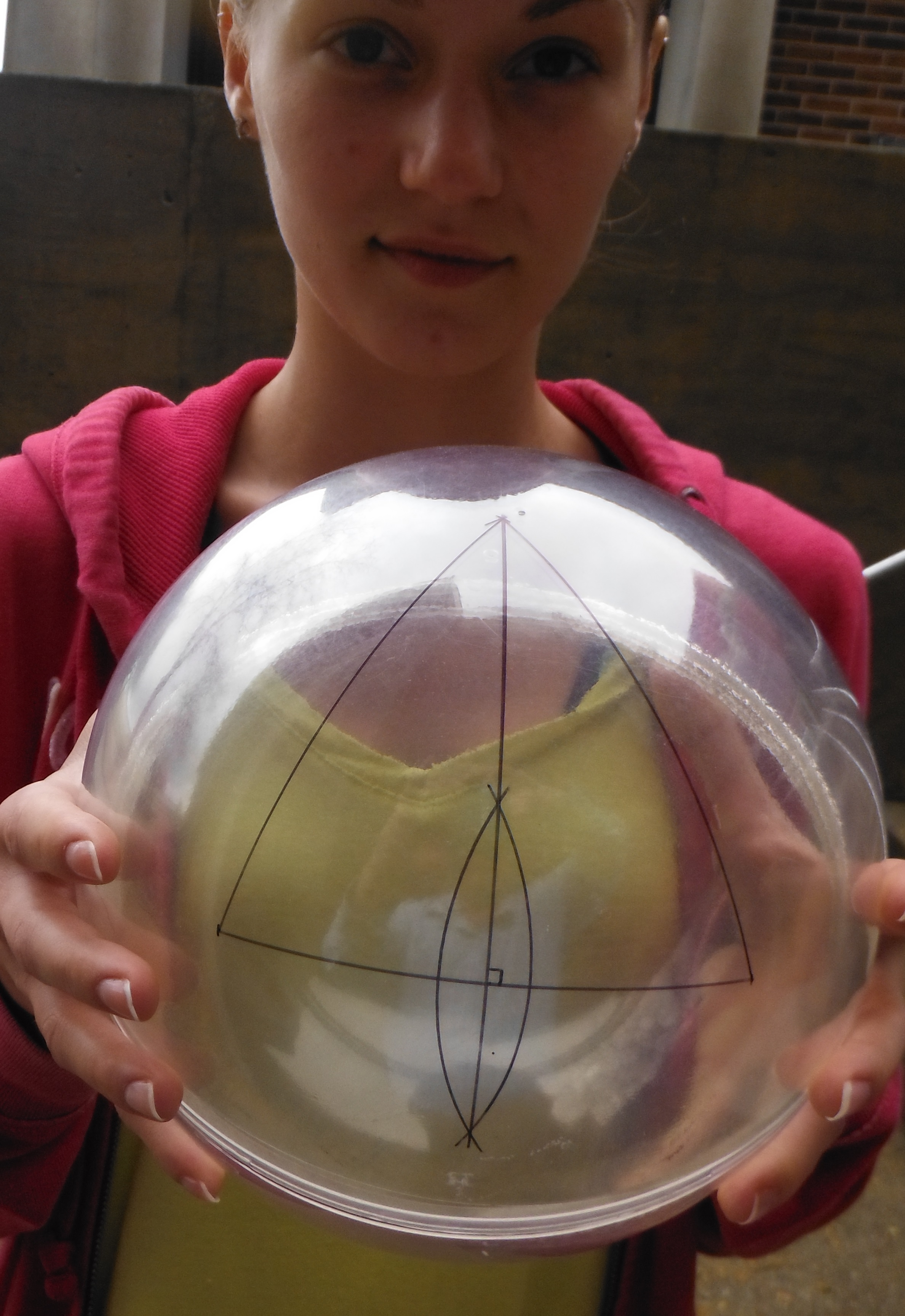 An equilateral triangle can be constructed on a Lenart sphere by bisecting a line.